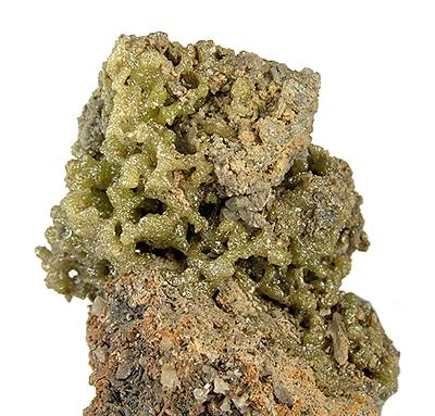 Bromargyrite Locality: Broken Hill, Yancowinna County, New South Wales, Australia (Locality at ) Size: miniature, 4.7 x 3.9 x 3.5 cm Bromargyrite This mineral species, a rare silver bromide, reaches its zenith here at the Broken Hill, New South Wales, Australia. Elongated, lustrous, translucent, green crystals of bromargyrite to .7 cm in length, sit up on matrix. In some ways the bromargyrite crystals look like jelly beans. Classic and beautiful for this material. Ex. Richard Hauck Collection.